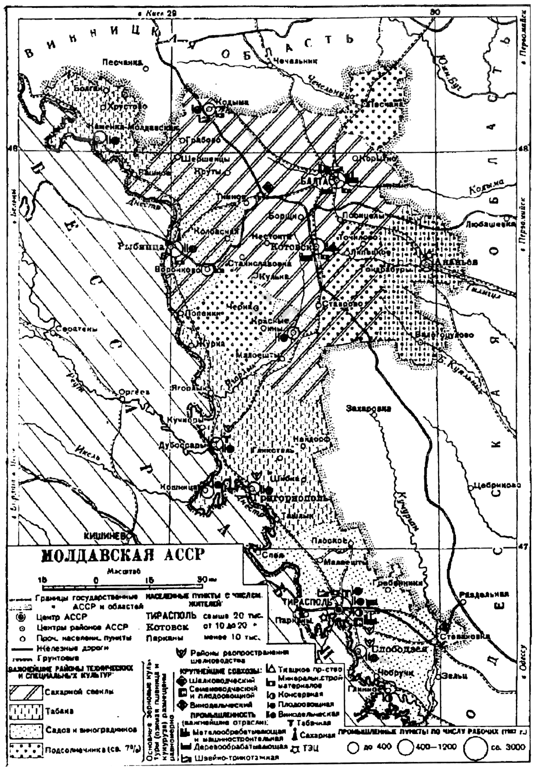 Economic map of the Moldavian ASSR